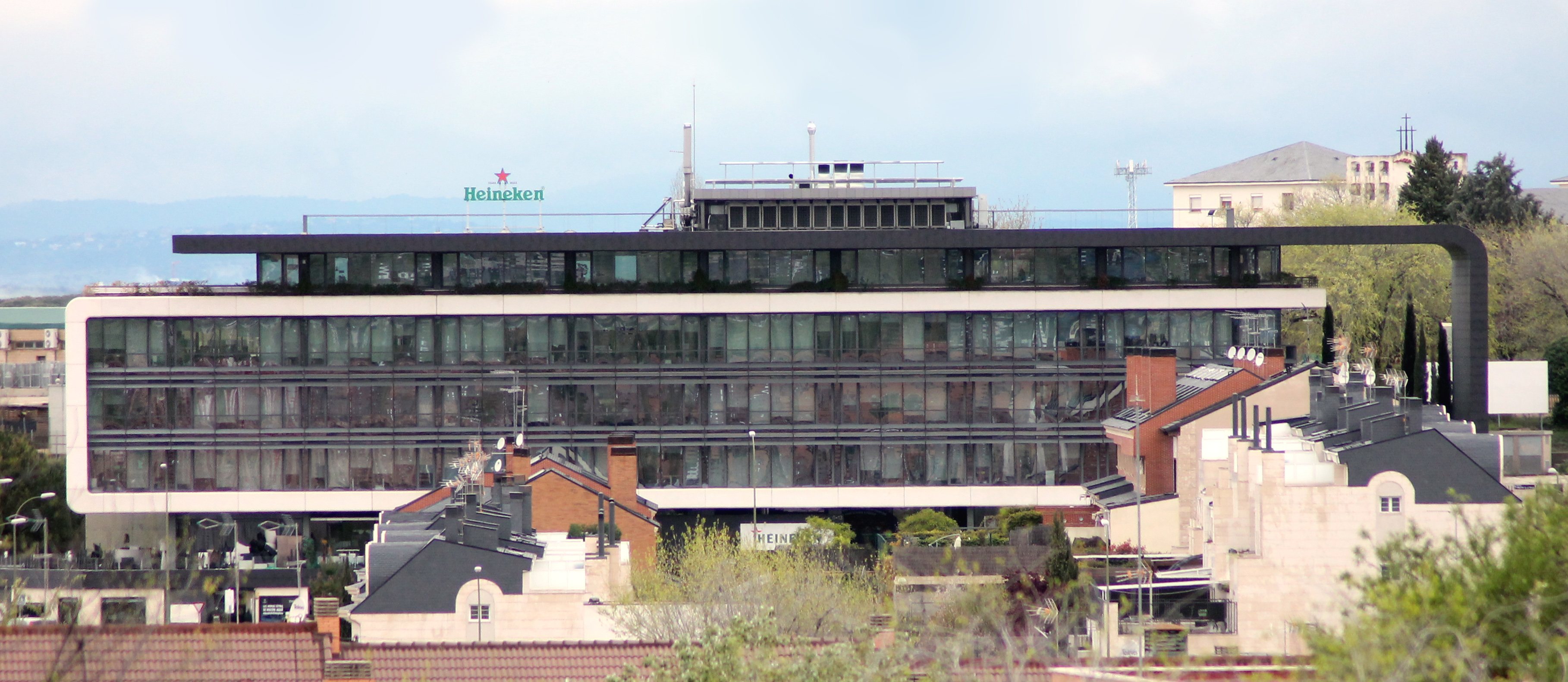 East façade of Monteolmo Building in Madrid (Spain). It is home to Heineken offices in Spain.